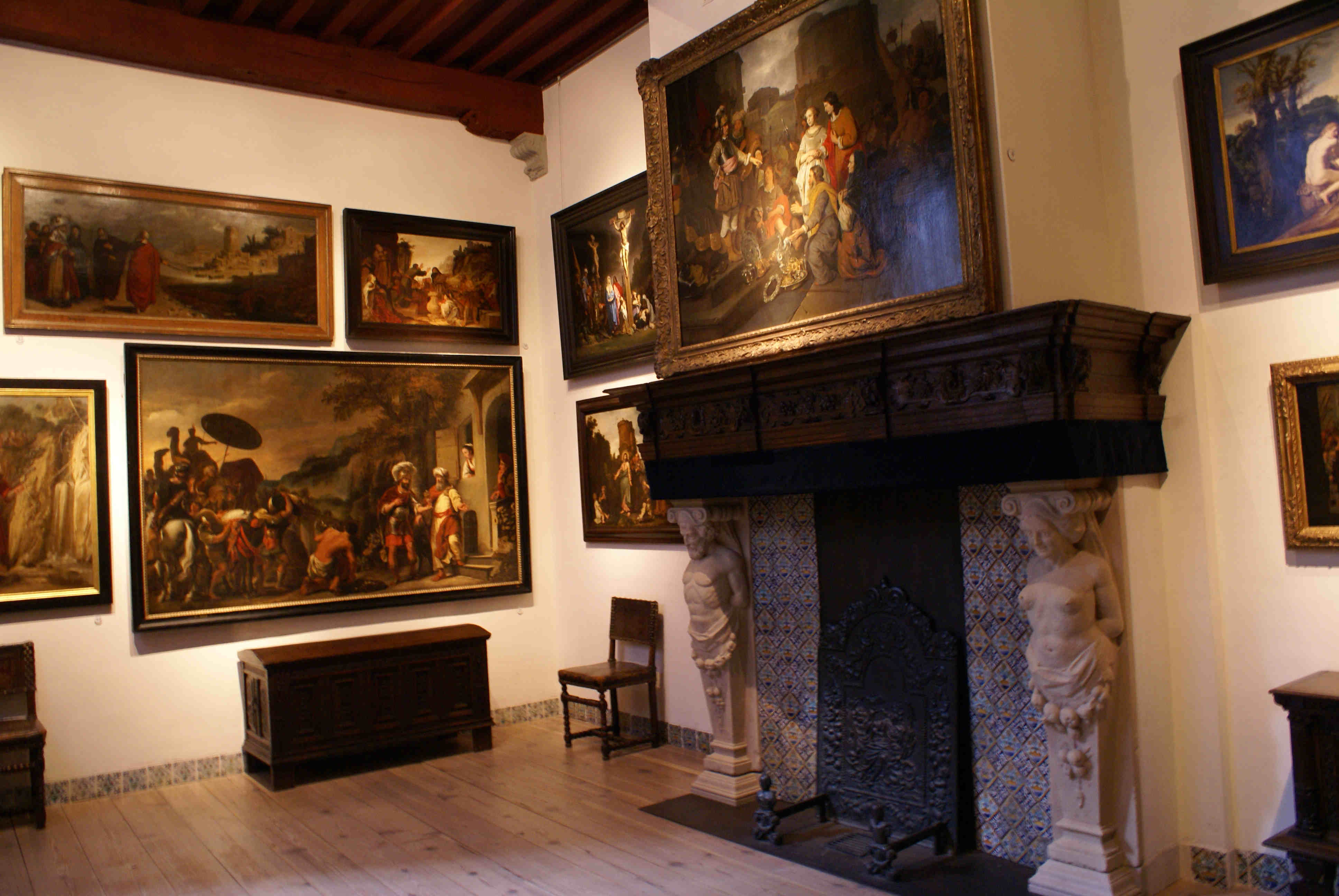 House of of Rembrandt, Amsterdam